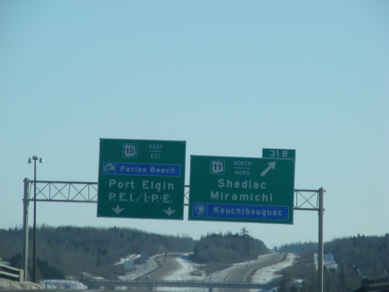 Nearing exit 31 eastbound on New Brunswick Route 15 near Shediac. Route 15 continues towards Port Elgin and Confederation Bridge/Prince Edward Island.